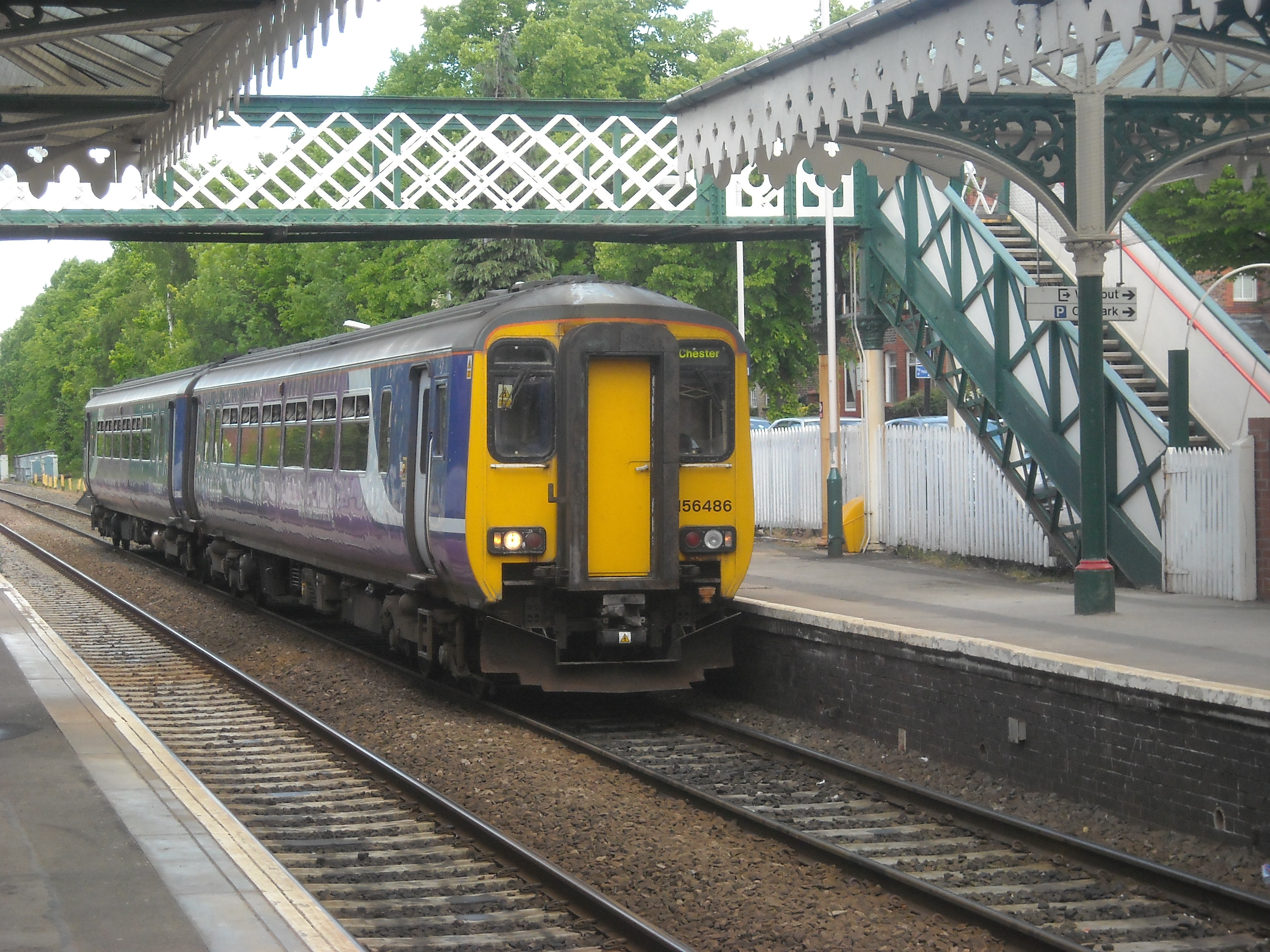 Northern Rail class 156 train seen arriving in Hale on Friday 28th May 2010